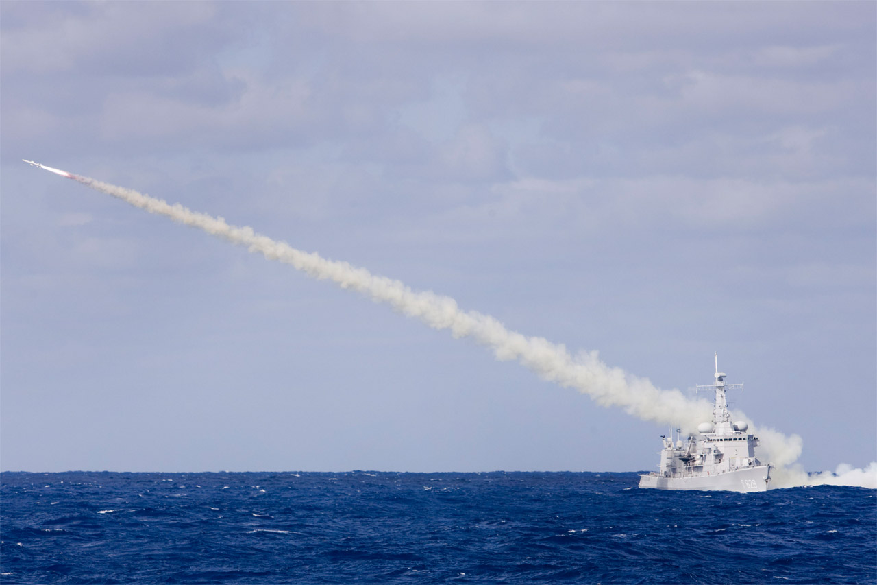 HNLMS Van Speijk (F828) fires a Harpoon